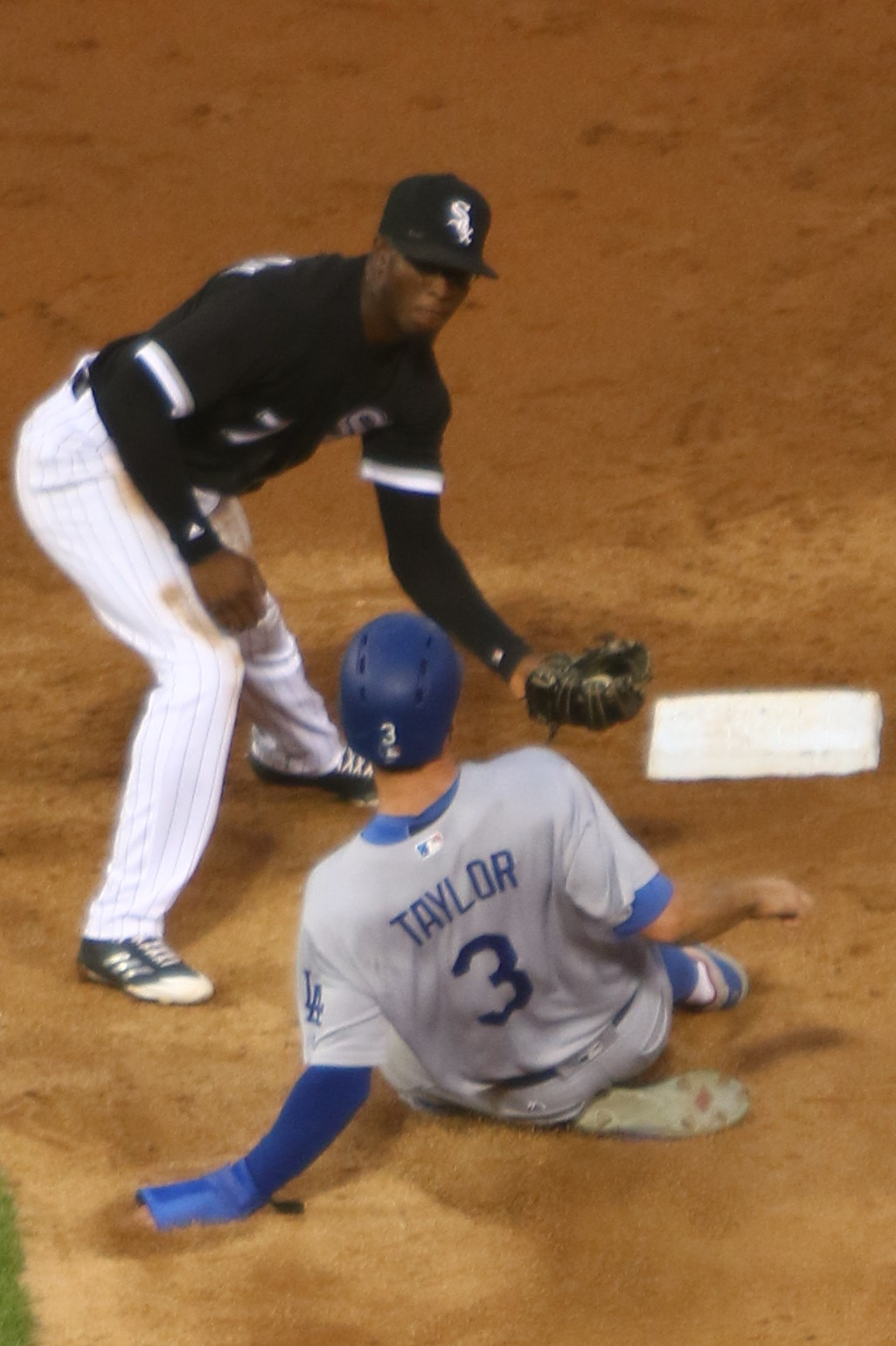 Tim Anderson for the 2017 Chicago White Sox tagging out Chris Taylor of the 2017 Los Angeles Dodgers